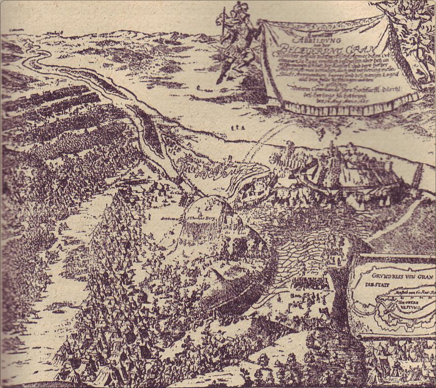 Contemporary print showing the Siege of Siege of Gran (Hungary) in August 1685 by an Ottoman army.